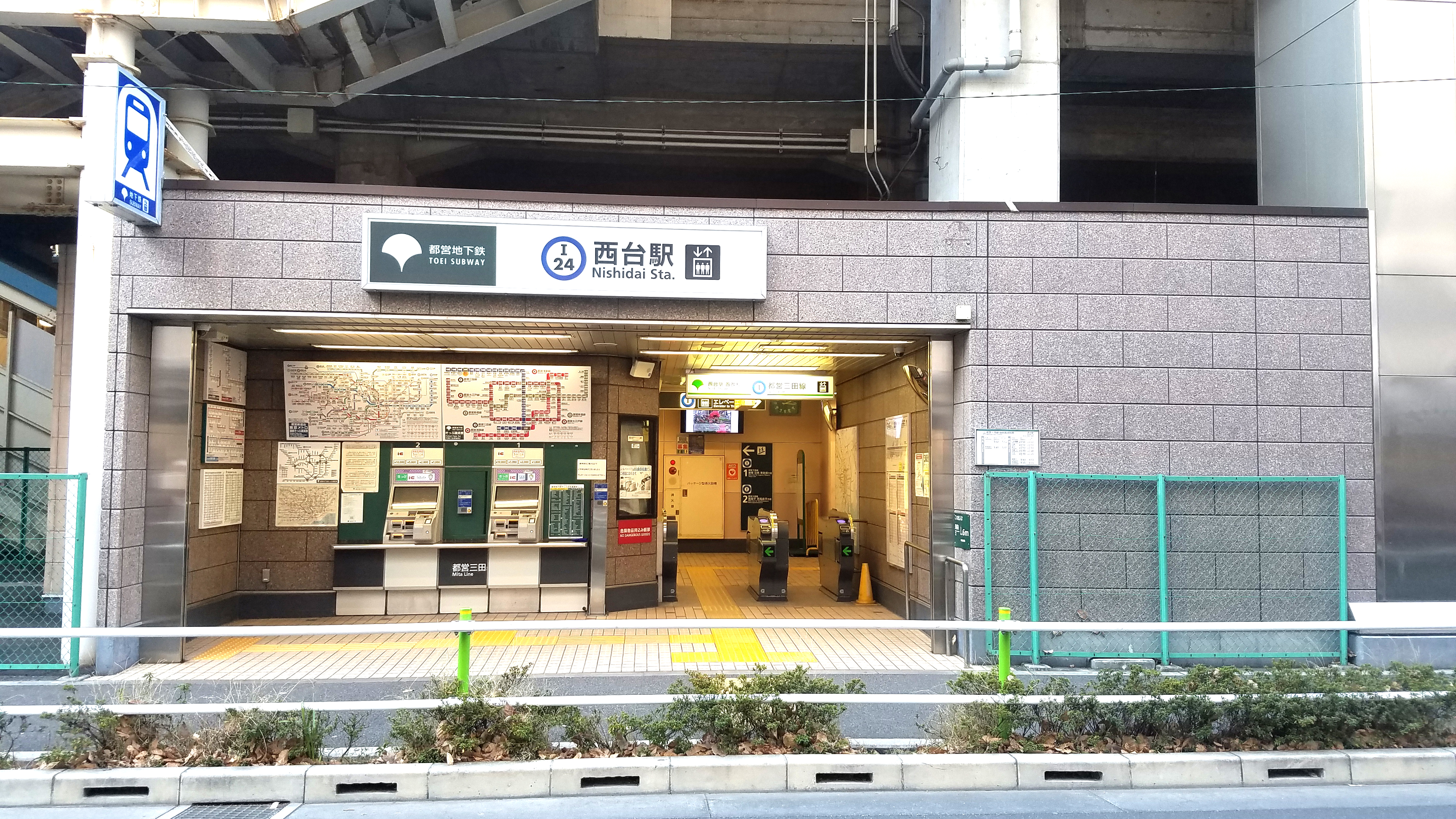 The west-side entrance to Nishidai Station on the Toei Mita Line in Itabashi city, Tokyo, Japan